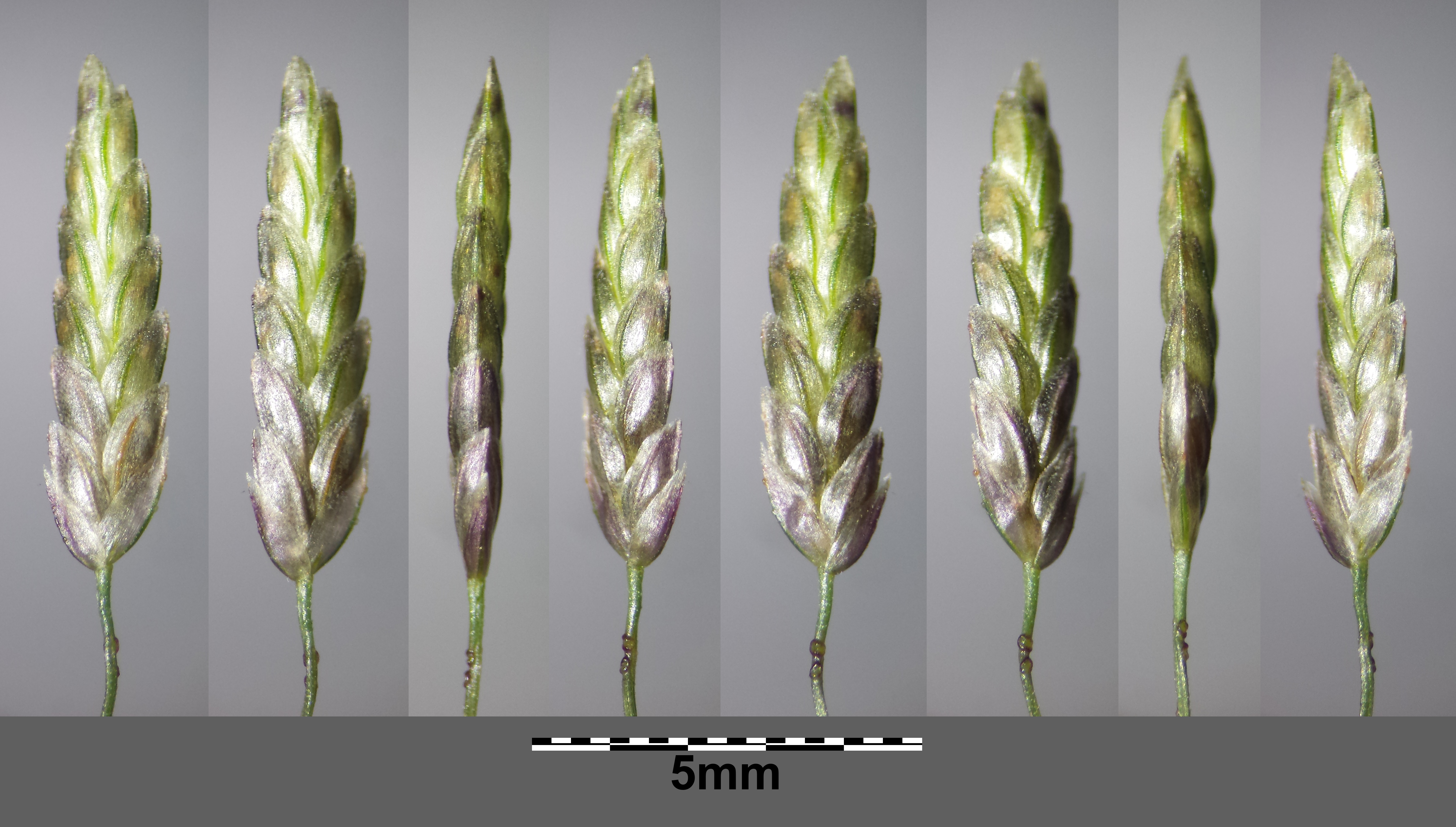 Spikelet Taxonym: Eragrostis minor ss Fischer et al. EfÖLS 2008 ISBN 978-3-85474-187-9 Location: Leopoldau, Vienna-Floridsdorf - ca. 160 m a.s.l. Habitat: gap in road surface